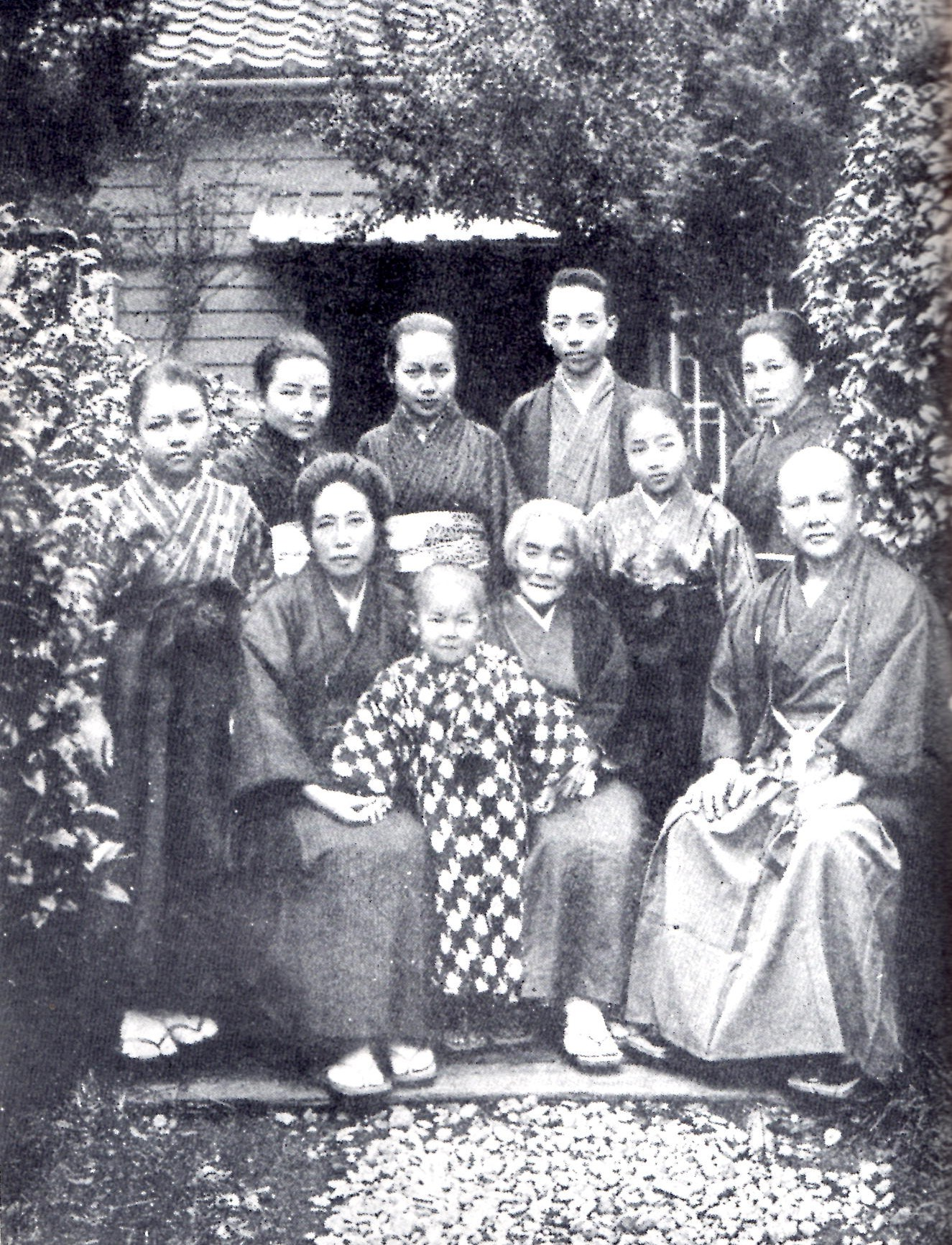 A assemble photo of Juji Nakada in 1922